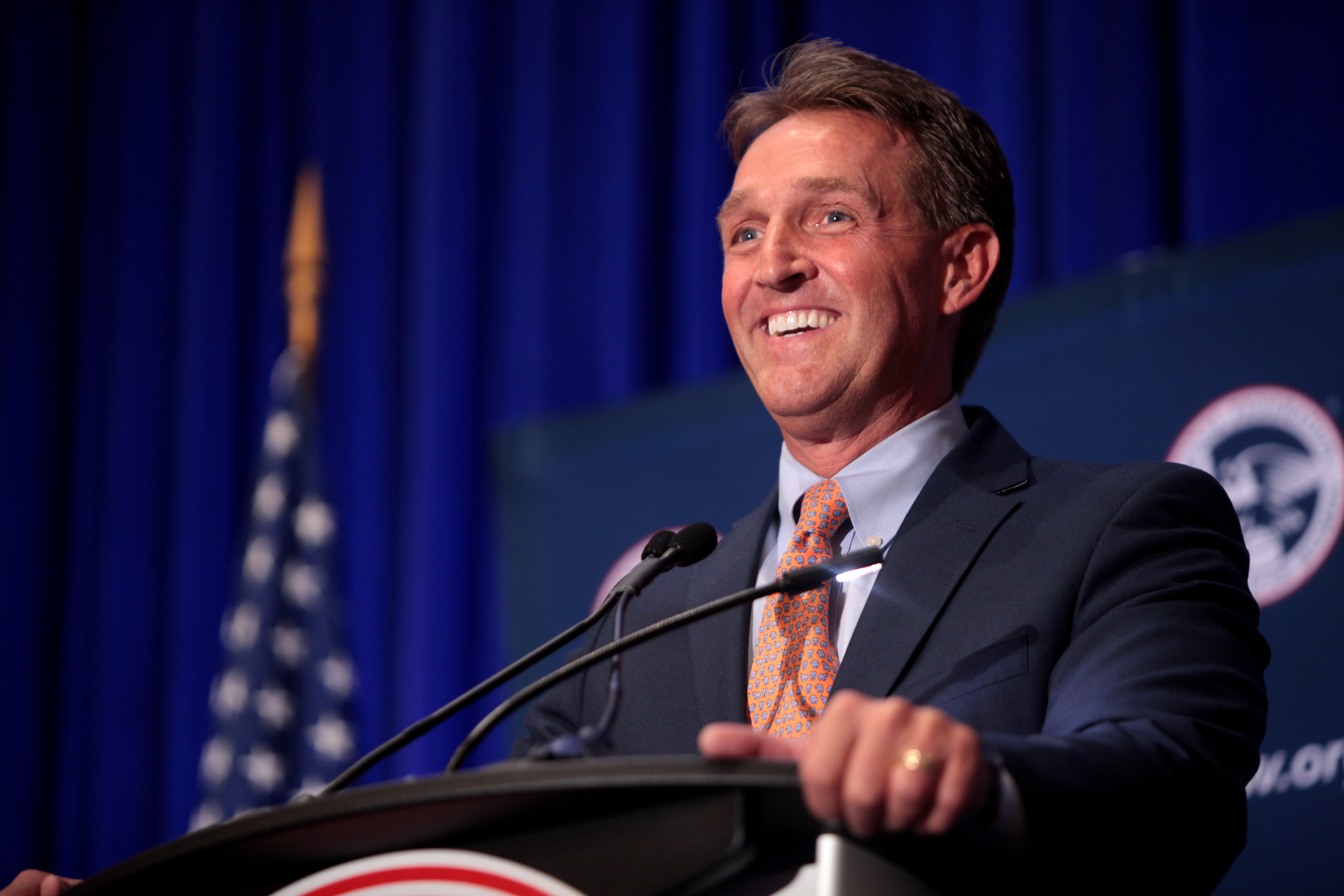 U.S. Senator Jeff Flake speaking at the National Federation of Republican Women's 38th Biennial Convention in Phoenix, Arizona.